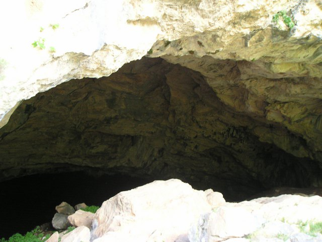 Ravlića cave